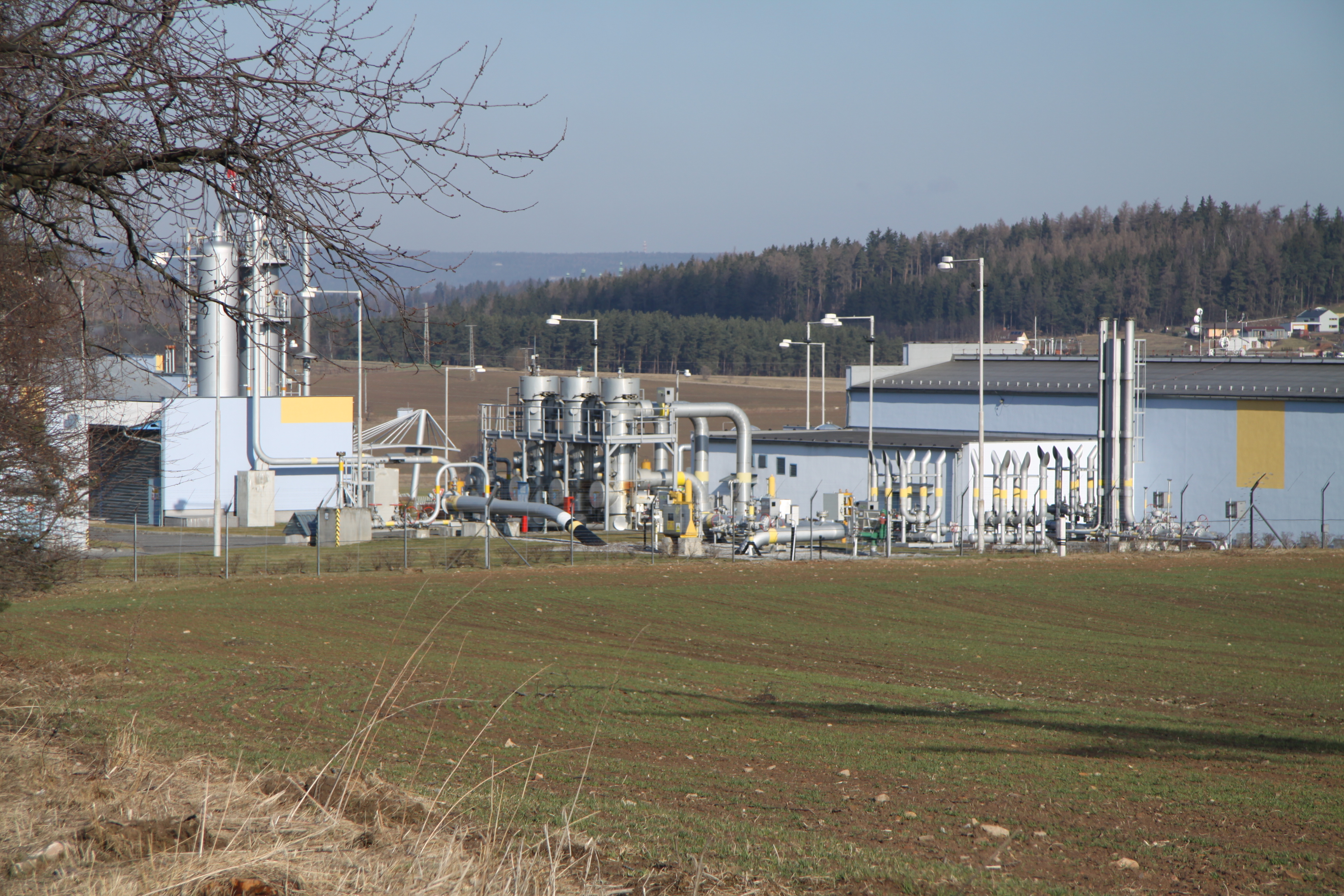 Underground natural gas storage Háje near Milín village in Příbram District, Czech Republic